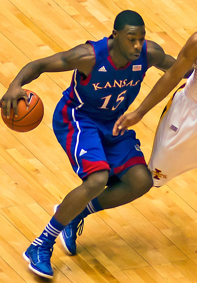 Chris Allen of Iowa State defends against Elijah Johnson of Kansas